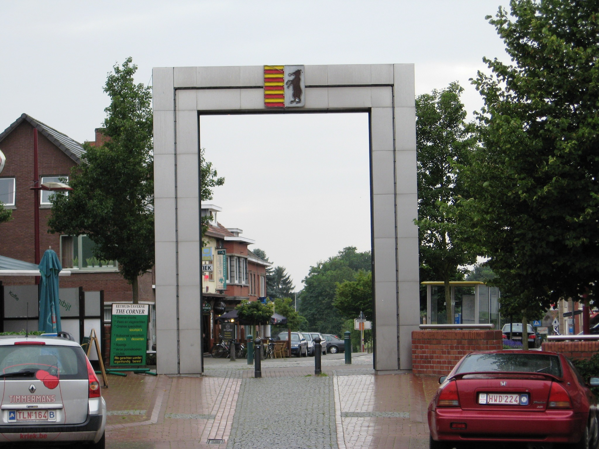 The "Paalse Poort", a gateway at the exit of the central square in Beringen, Limburg, Belgium